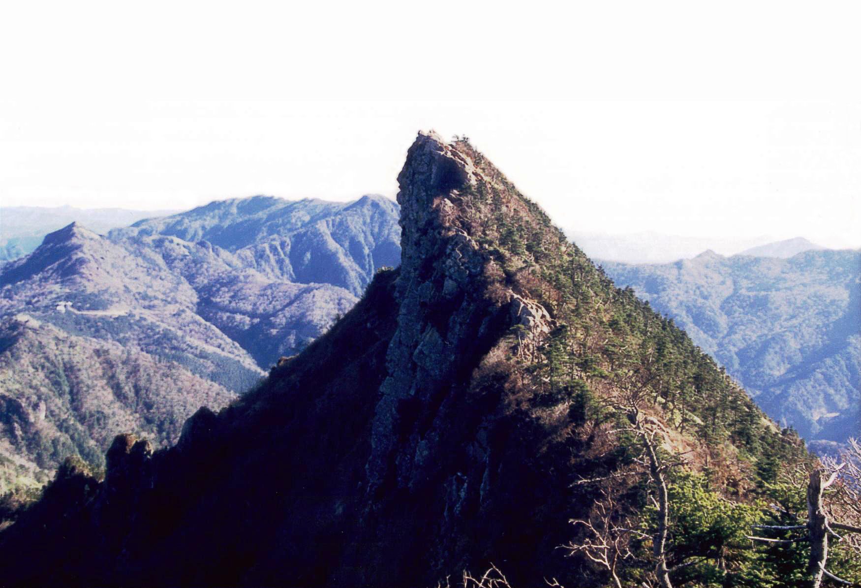 A view of Tengudake peak which a top of Mount Ishizuchi in Ehime Prefecture, Japan.